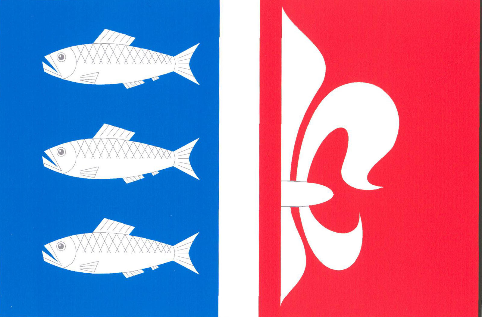 Municipal flag of Herink , District Prague East, Czech Republic